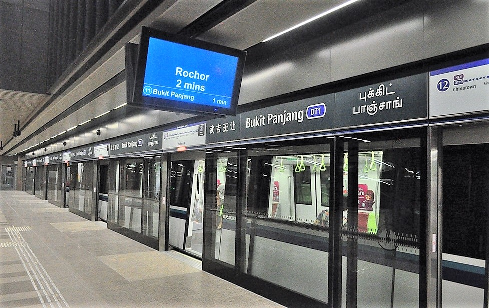 It's a photo of the singapore's MRT Downtown Line Bukit Panjang Station.